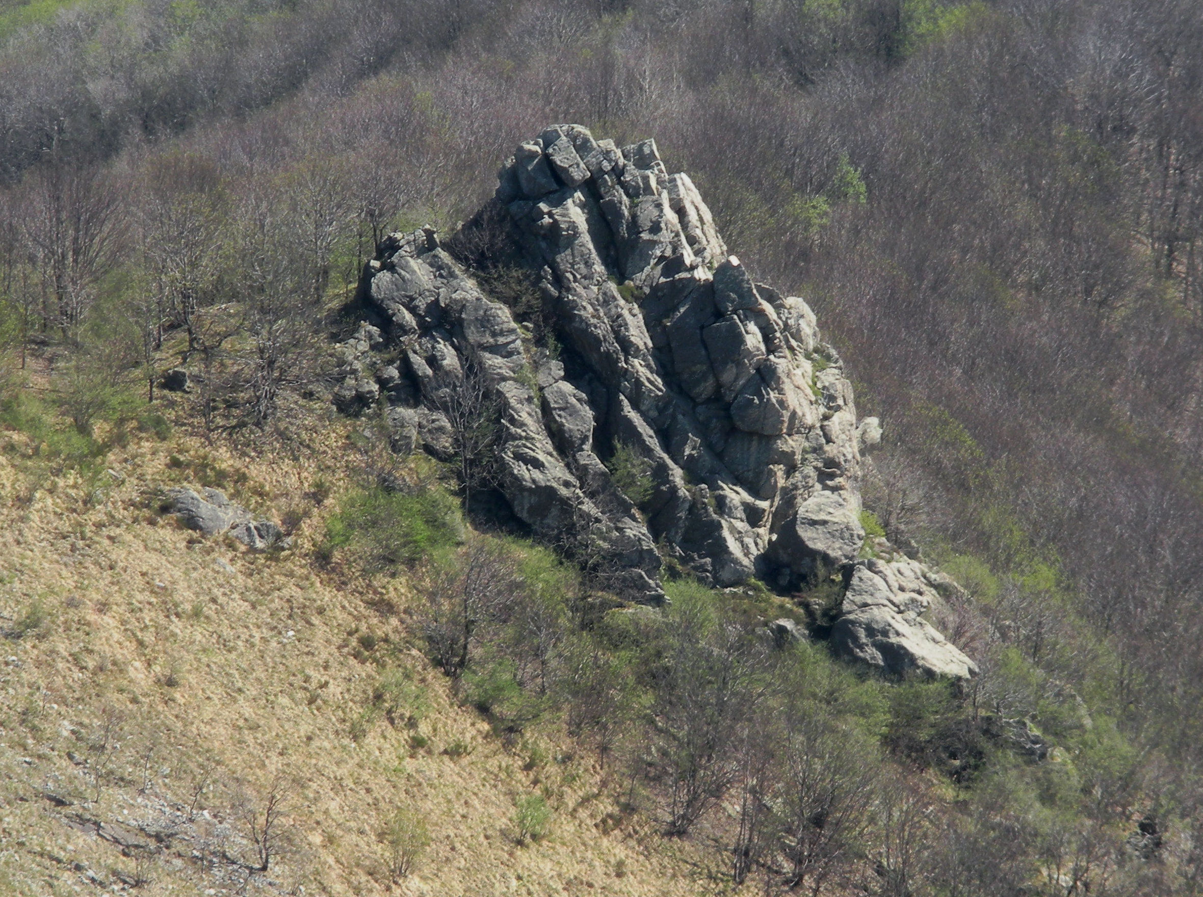 Genoa, Italy, Val Varenna, Rocca del Garsello